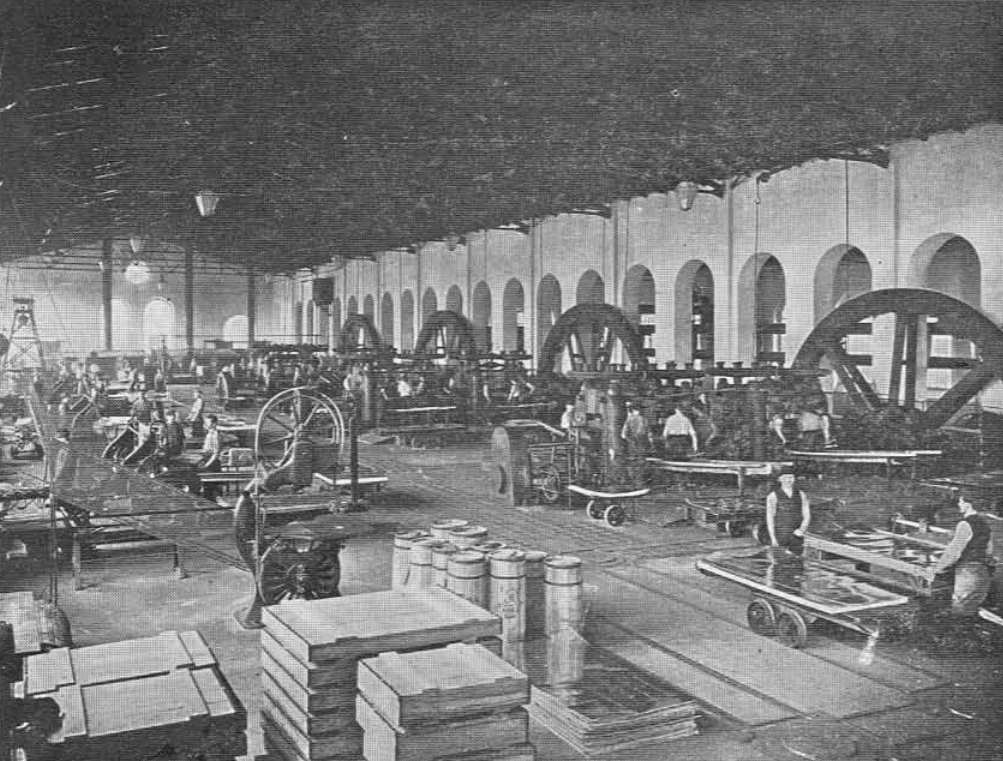 The hall in zinc rolling mill in Szopienice, now Poland.